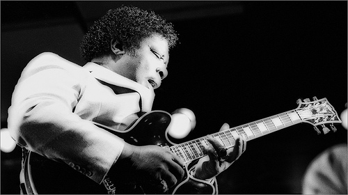 B.B. King in concert 05/07/1984 Roma 8° Jazz festival Pepito Pignatelli